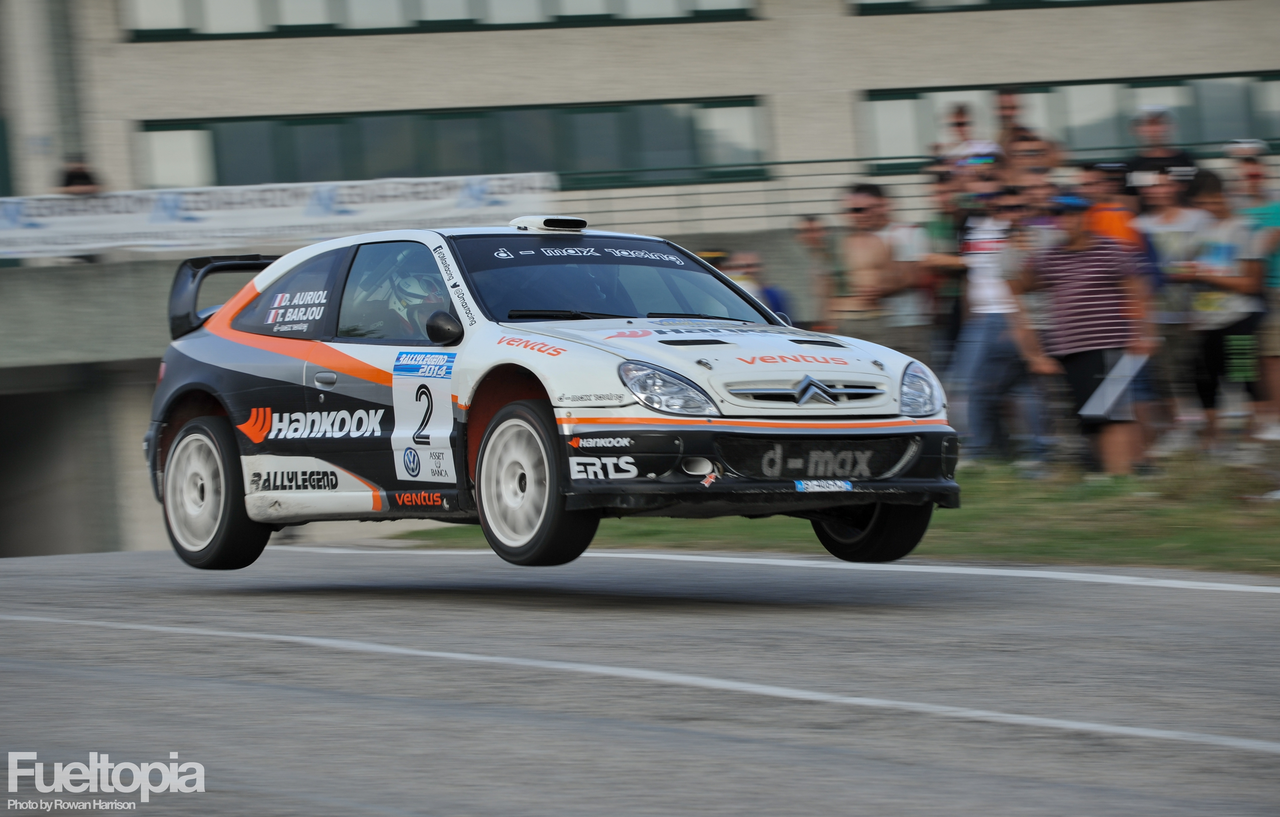 Rally Legend 2014 San Marino